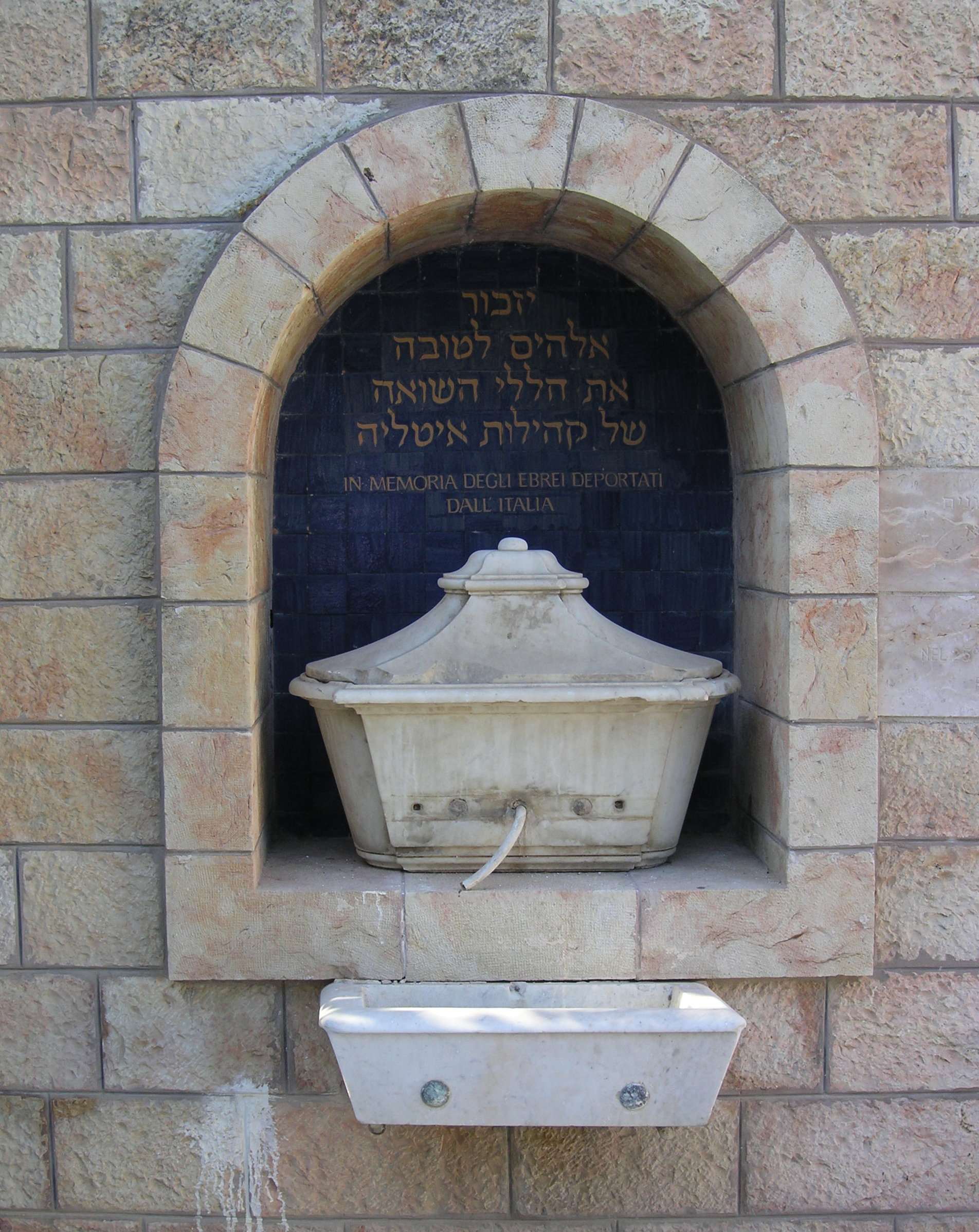 Memorial for the italians jews deported, Jerusalem (Israel)